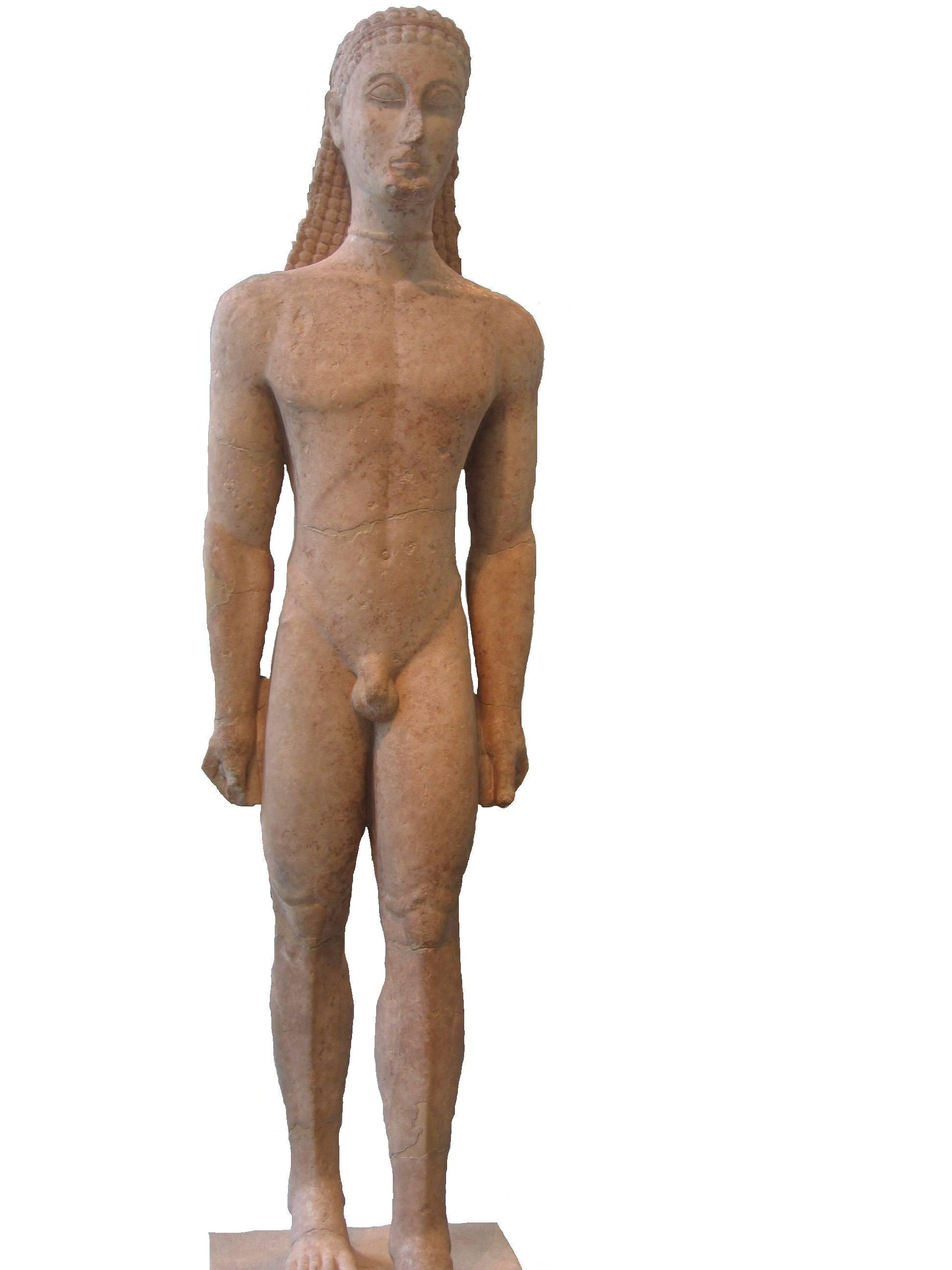 So-called “New York Kouros”, Attic marble kouros, ca. 590-580 BC. Metropolitan Museum of Art (New York), Fletcher Fund, 1932. Inv. 32.11.1.